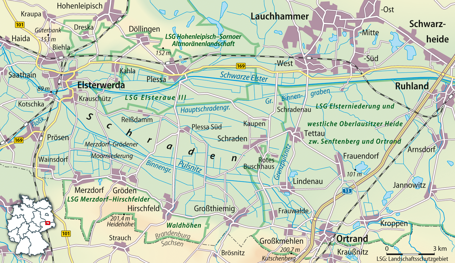 Map of the Schraden, a region in southern Brandenburg, Germany